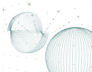 A 3D turtle graphics example from Cheloniidae Turtle Graphics.